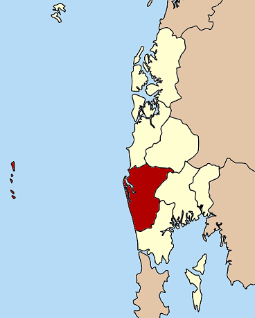 Map of Phang Nga province, Thailand, highlighting the district Thai Mueang (geocode 8208).